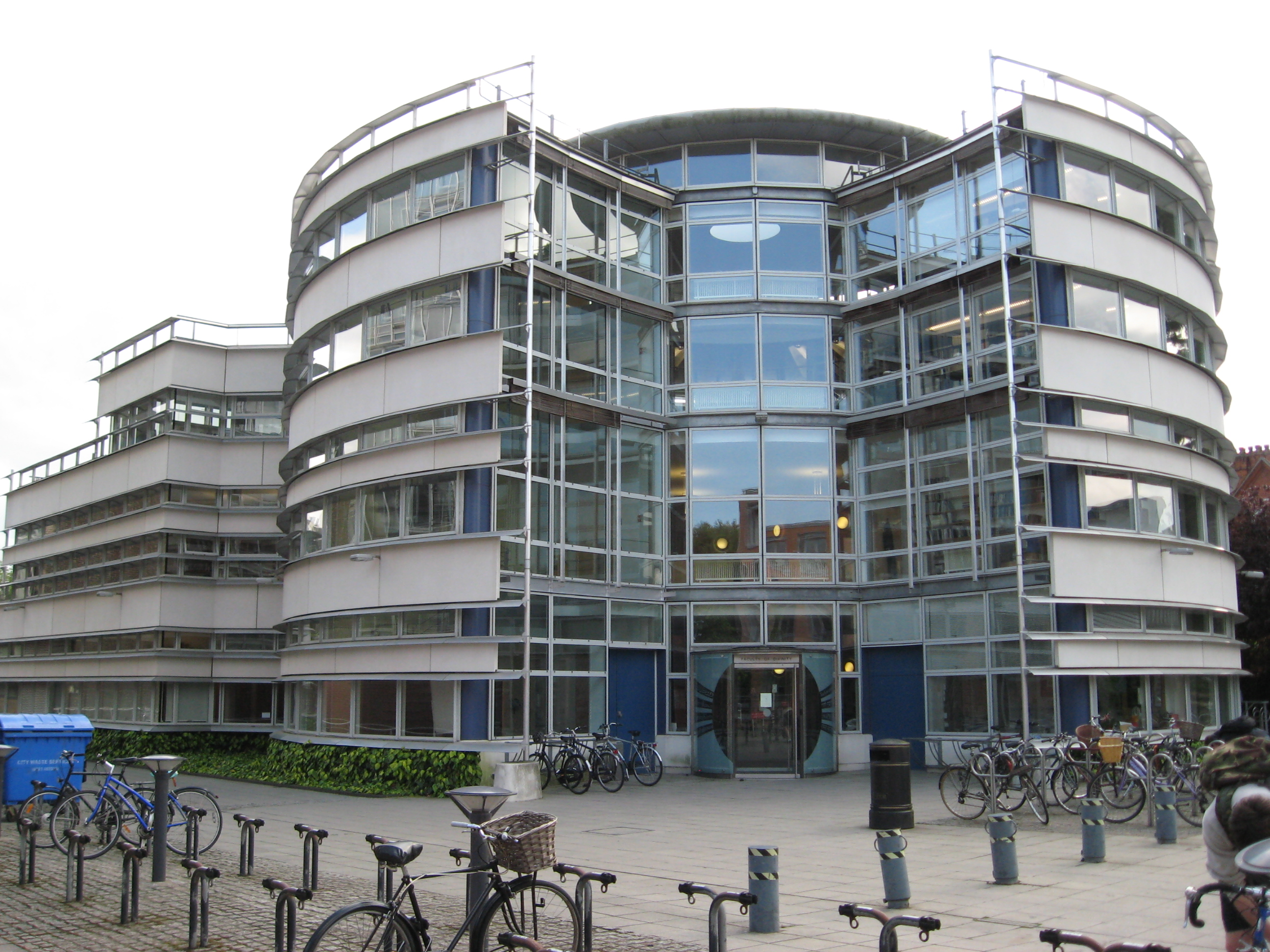 This image depicts the University of Cambridge's Divinity Faculty building (taken in June 2009)